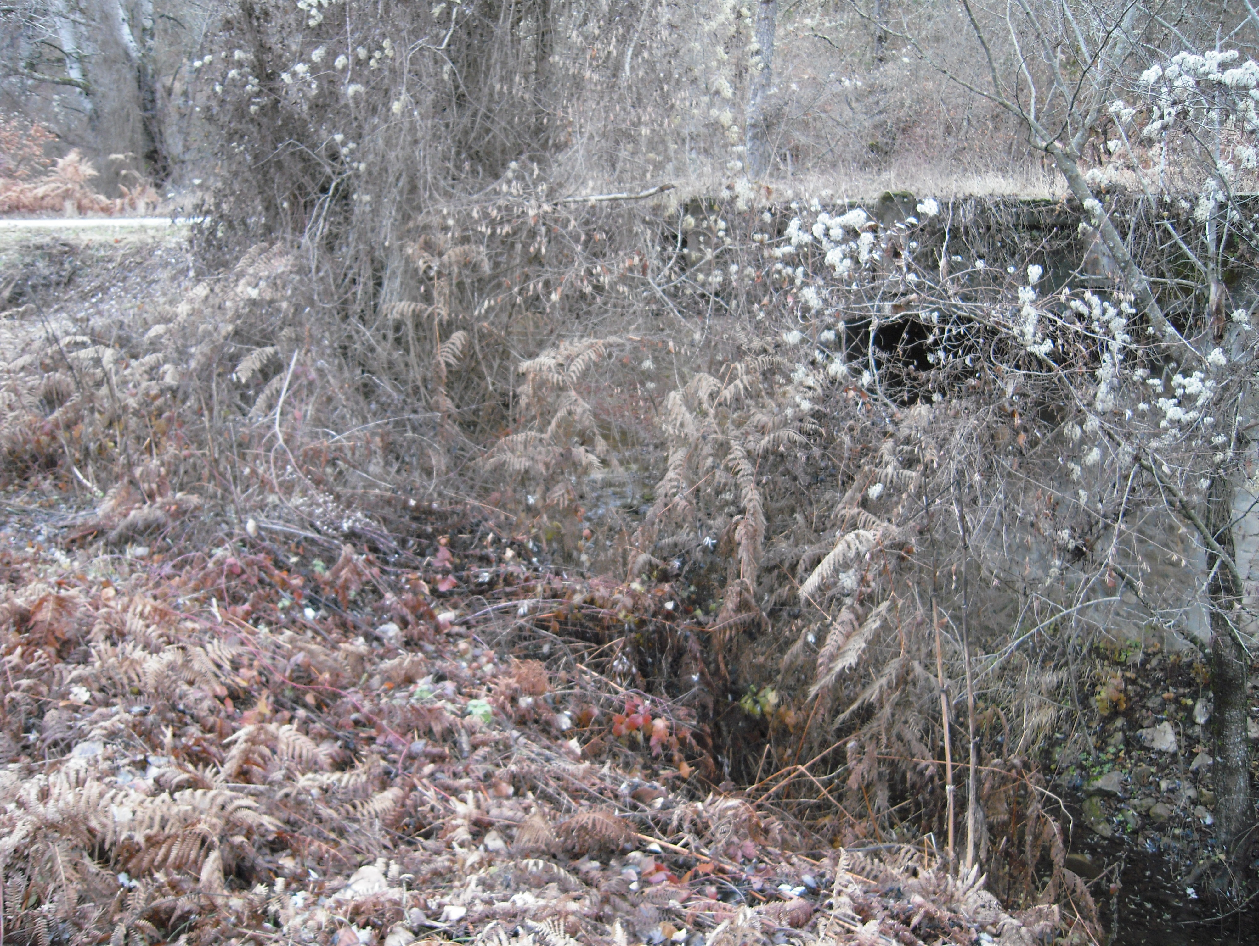 Голешово